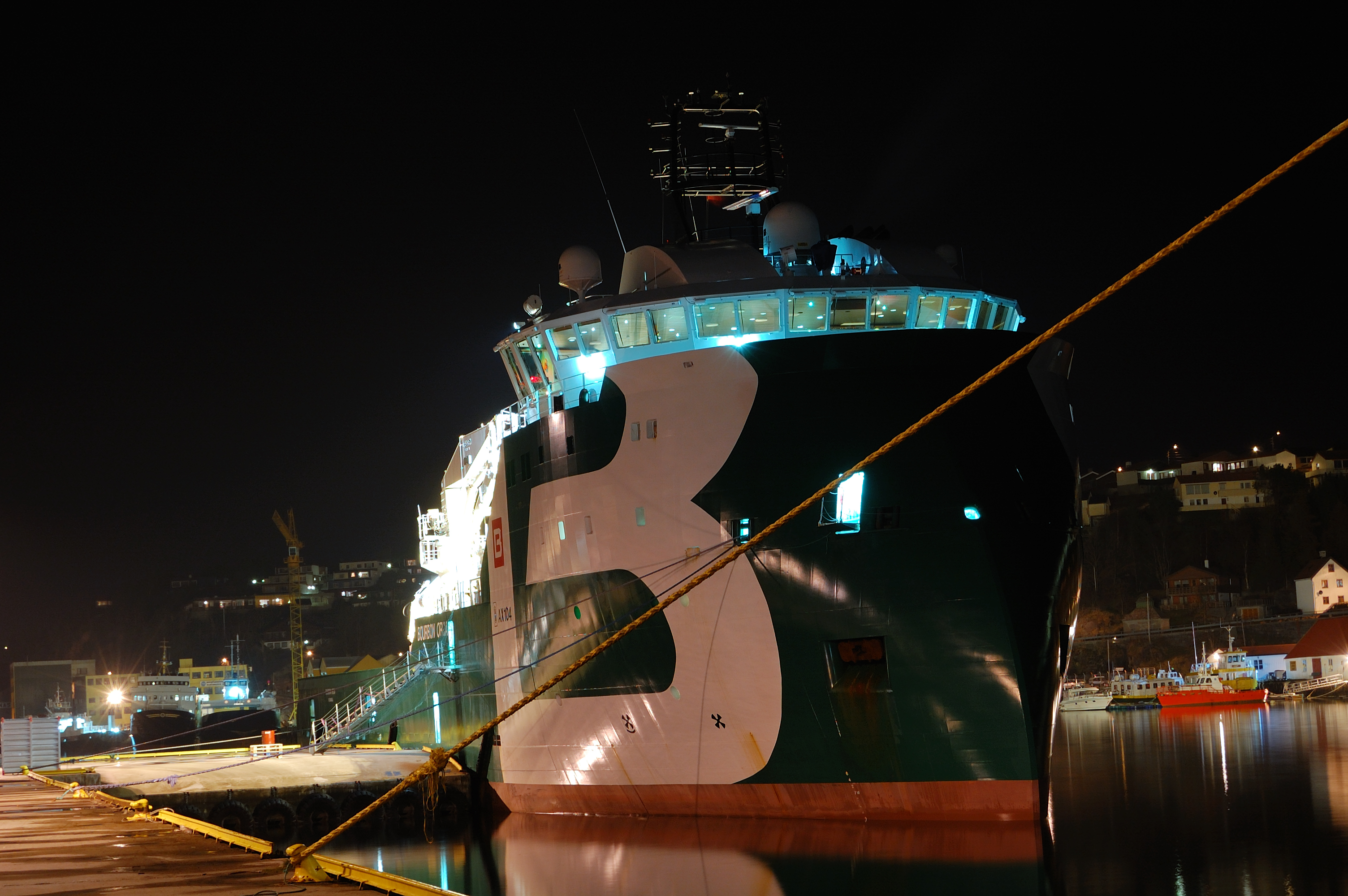 Norwegian ship Bourbon Orca (IMO 9352377) in Kristiansund.